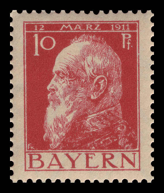 90th day of birth of Luitpold, Prince Regent of Bavaria (1821-1912) Graphics by von Kaulbach Ausgabepreis: 10 Pfennig First Day of Issue / Erstausgabetag: März 1911 Michel-Katalog-Nr: 78 (Altdeutschland (Bayern))